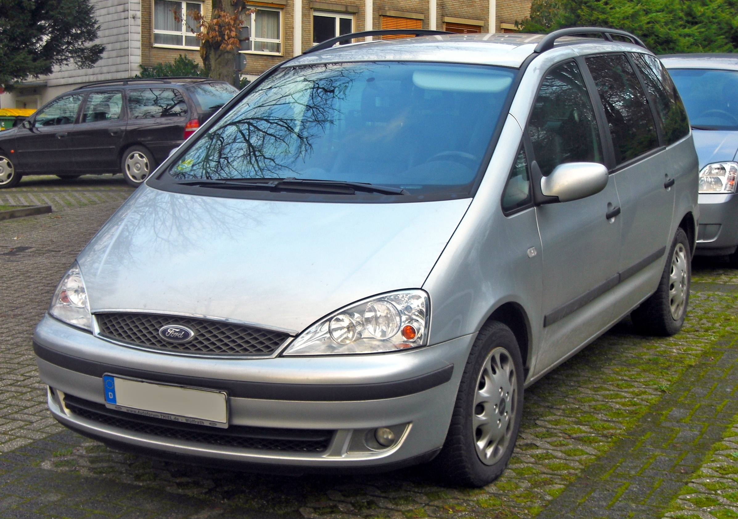 Description: Ford Galaxy I Facelift Source: Matthias Other Version(s)